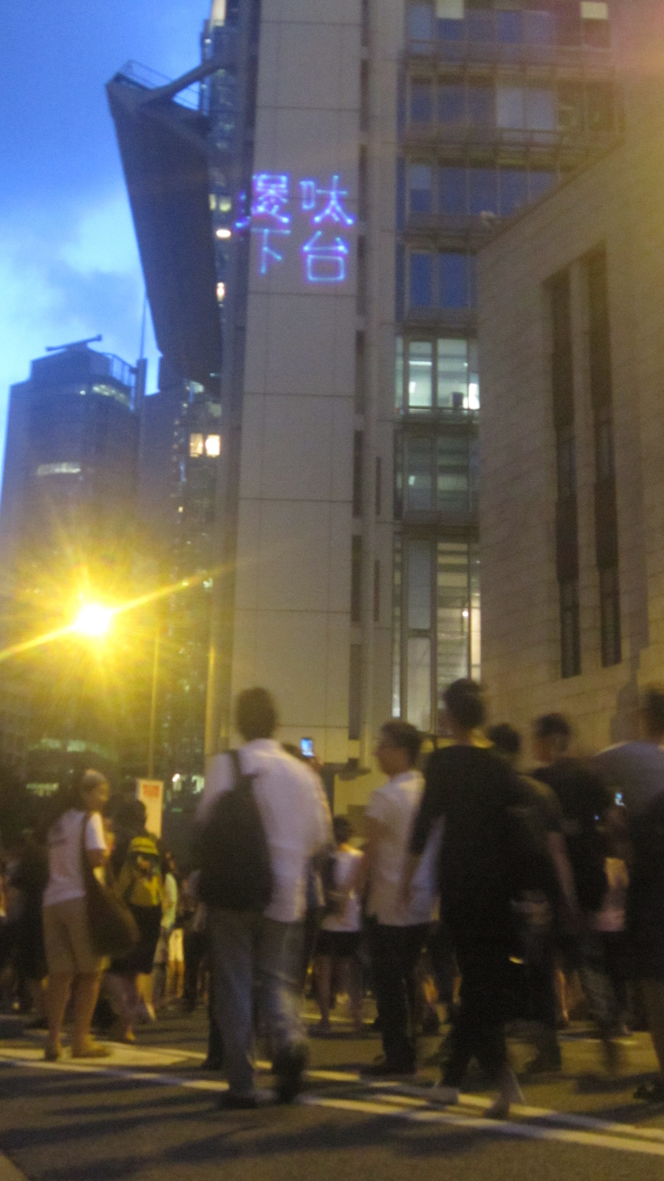 Hong Kong July 1 marches